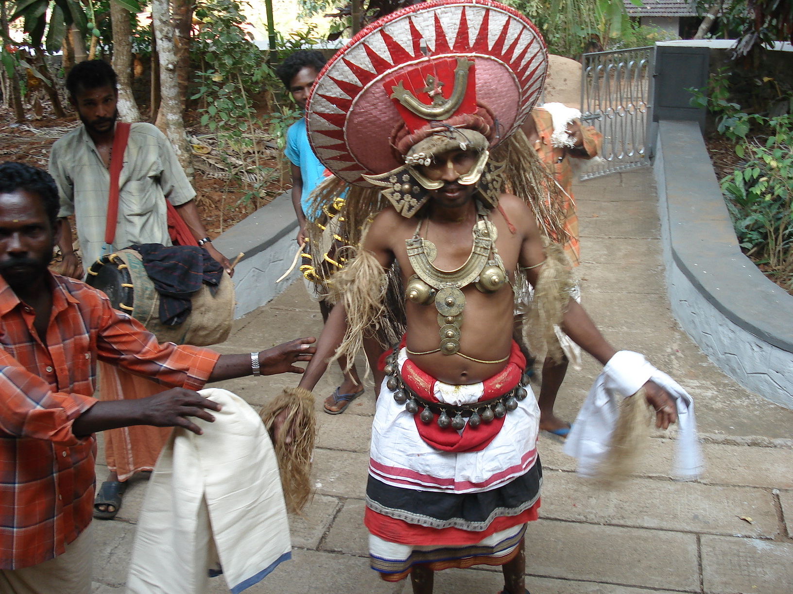 Parappothan performing dance in houses during Kathiratta vela